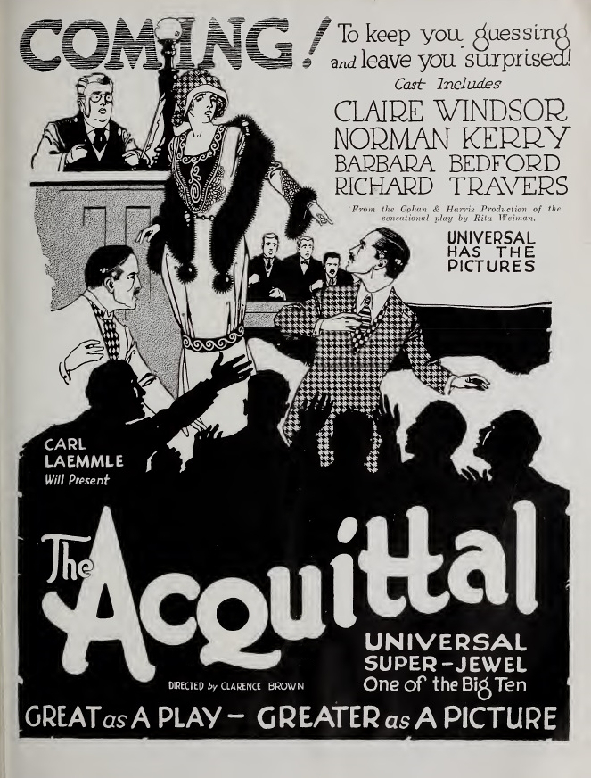 Advertisement for the American silent film The Acquittal (1923), in Universal Weekly, October 6, 1923